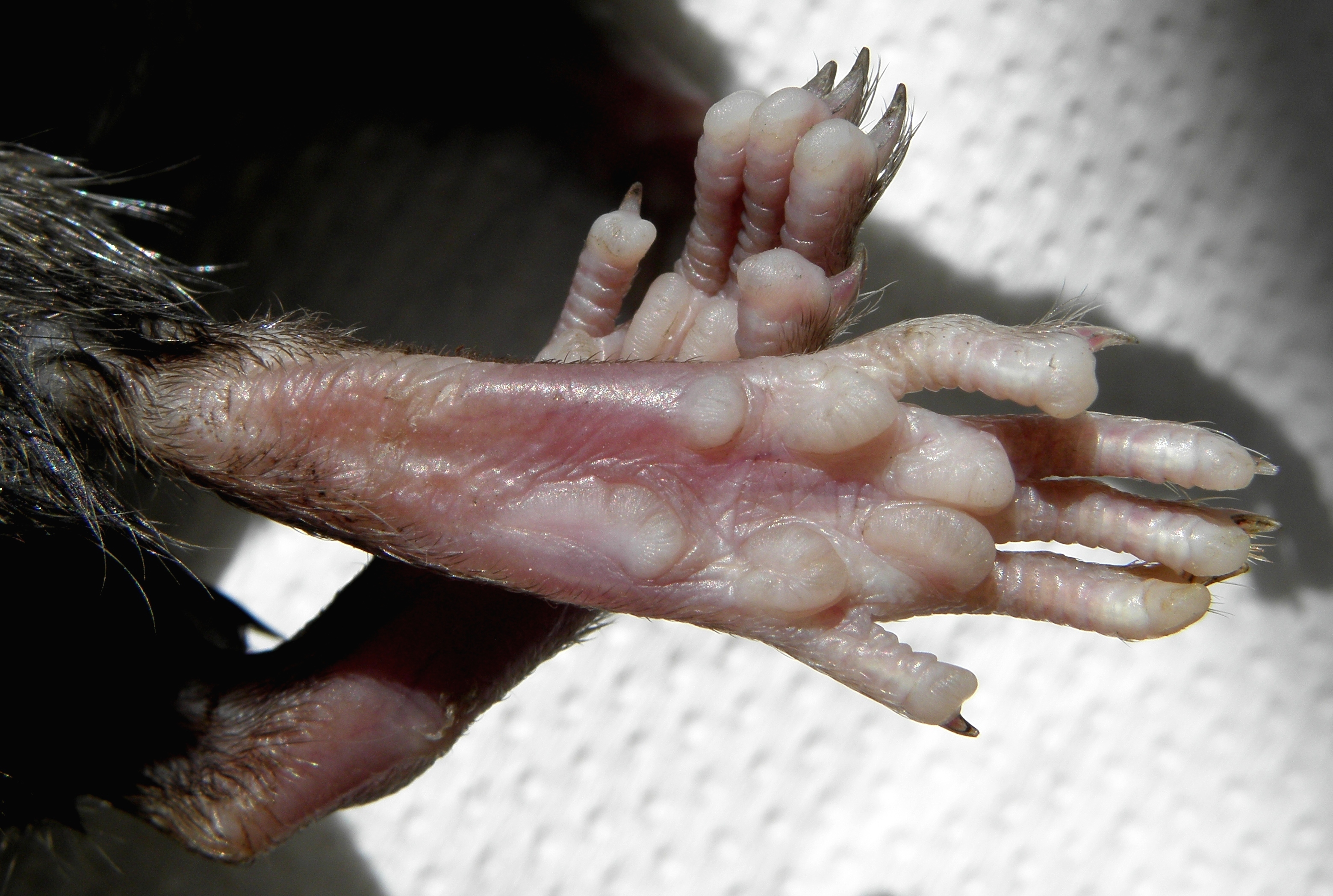 Hind legs of Black Rat (Rattus rattus).